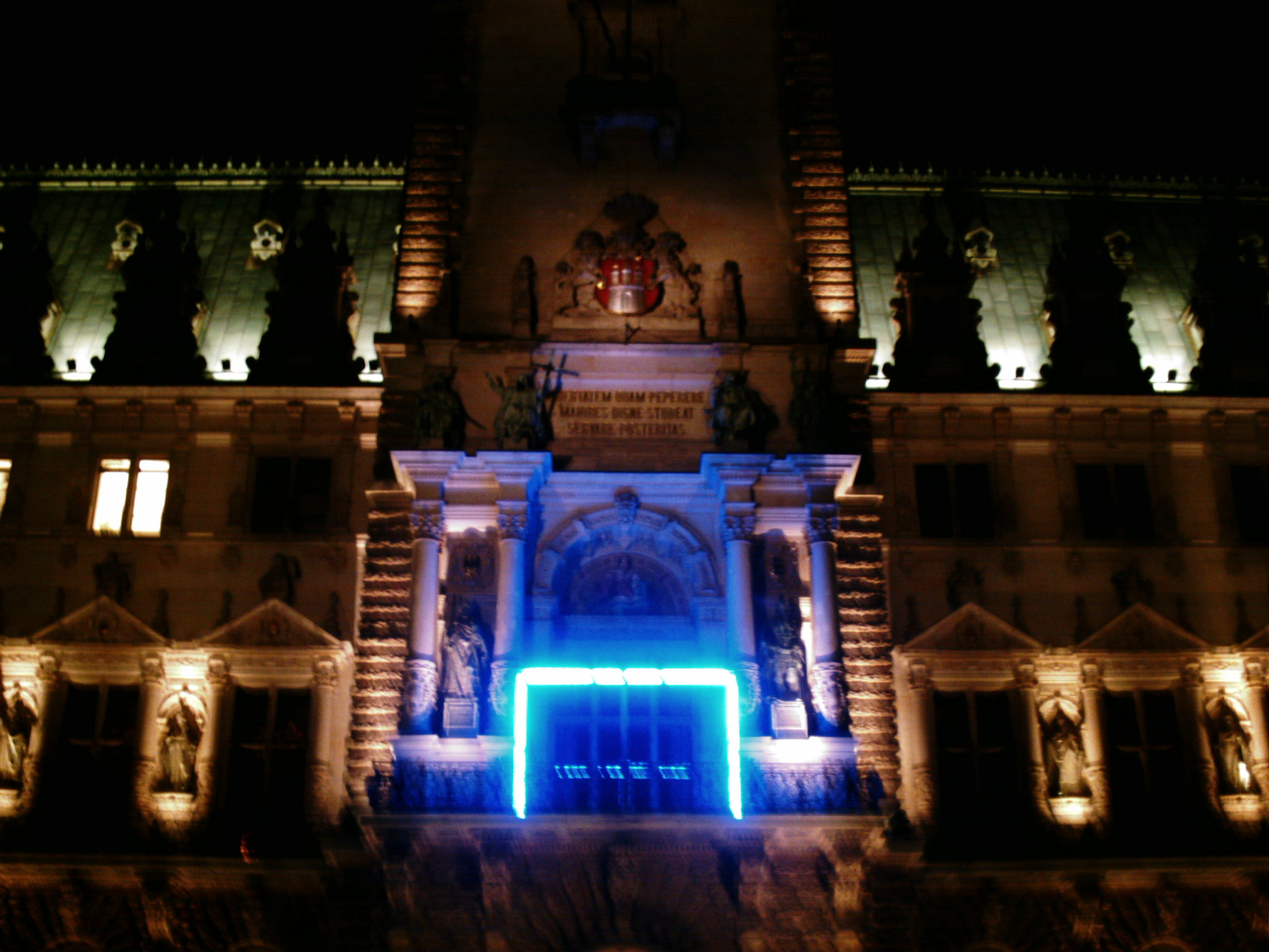 Blue Goal am Rathaus Hamburg